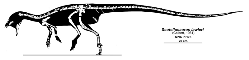 Skeletal reconstruction of Scutellosaurus lawleri